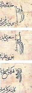 Pençe of Sultan, Süleyman and Ibrahim, sons of Orhan Ghazi. Detail of a Vakfiye of Orhan Ghazi. Comparable in structure with the Tughra of Orhan Ghazi.